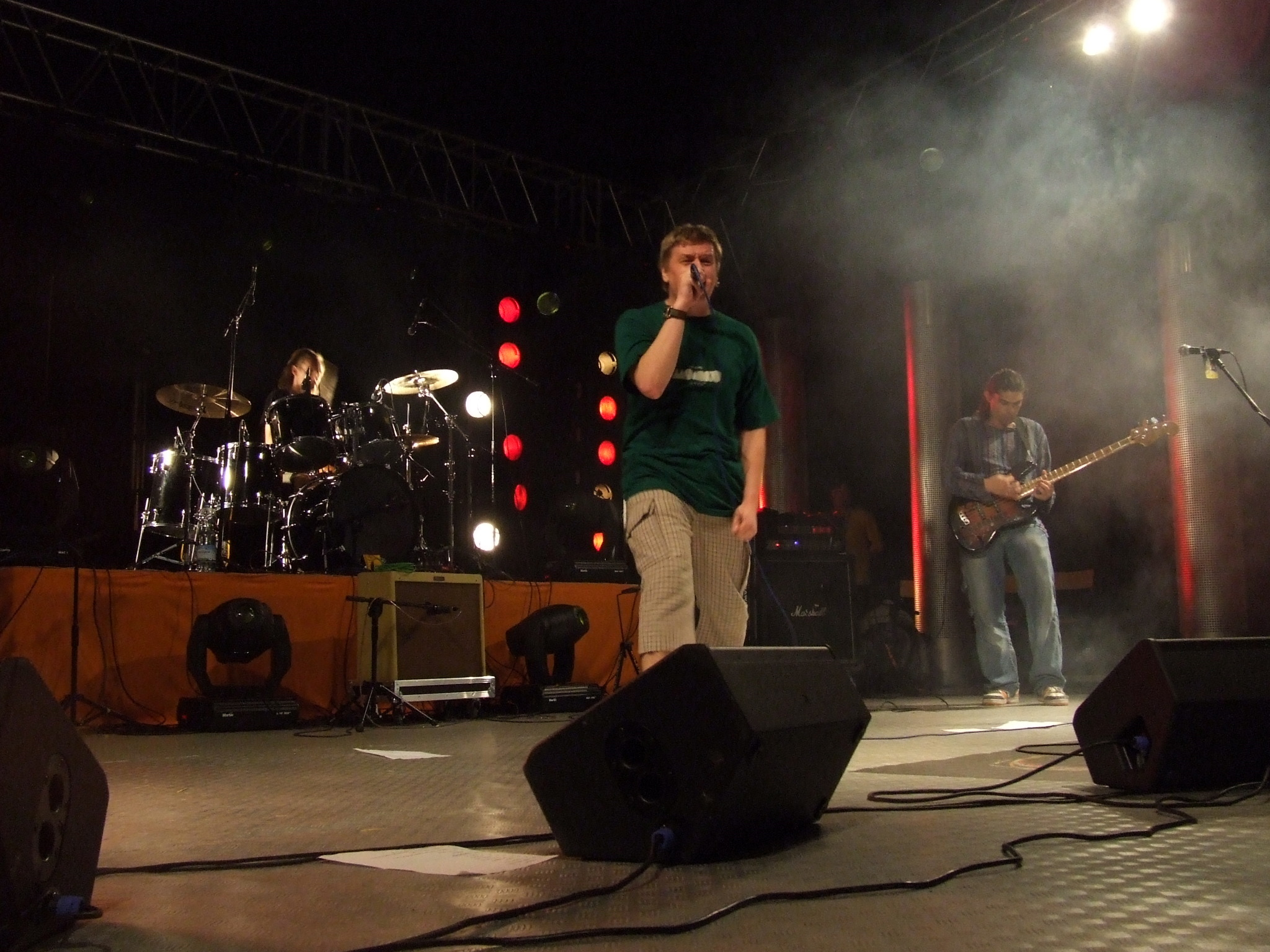 I drug moi Gruzovik at Basovišča Festival 2008